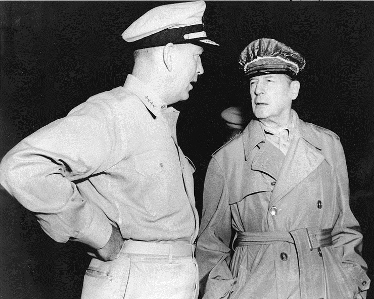 Photo #: 80-G-422487 Admiral Arthur W. Radford, USN, Commander in Chief, Pacific and Pacific Fleet, (left) and General of the Army Douglas MacArthur, Commander in Chief, Far East Confer while awaiting the arrival of the Joint Chiefs of Staff, at Tokyo, Japan, 21 August 1950. Official U.S. Navy Photograph, now in the collections of the National Archives.